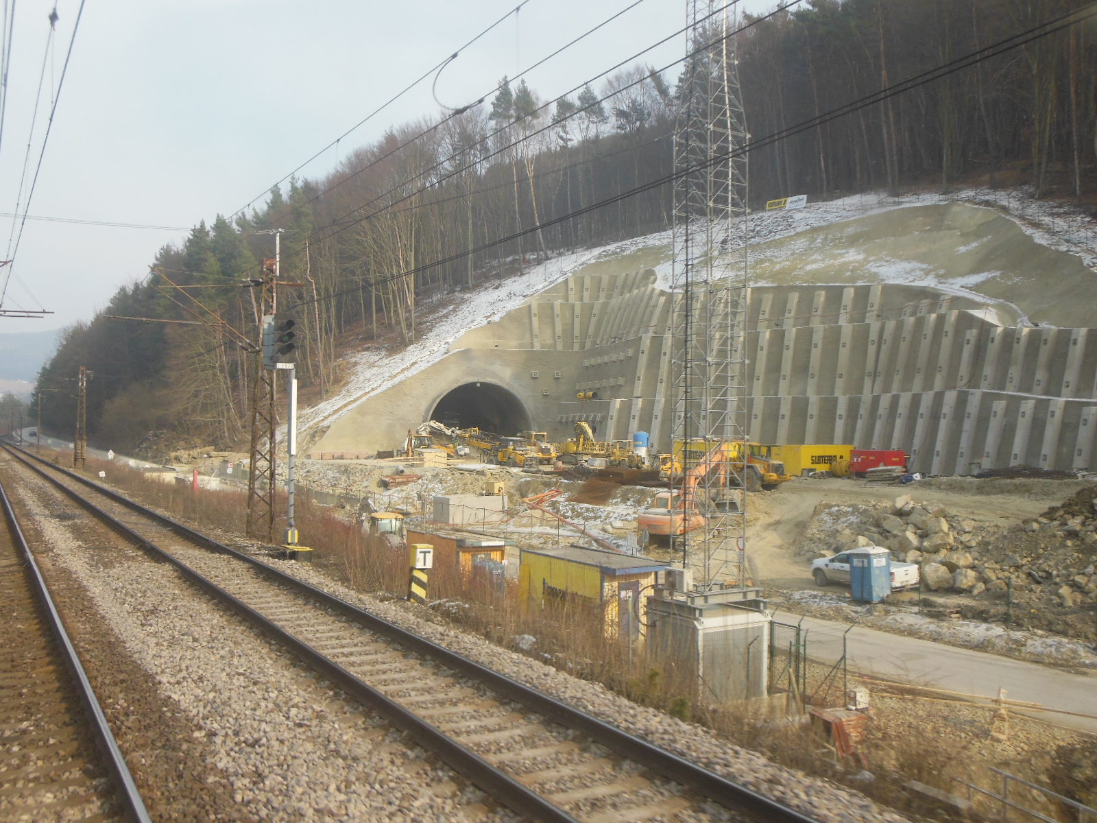 The southern portal of the tunnel Milochov on the Bratislava - Žilina line in March 2018.